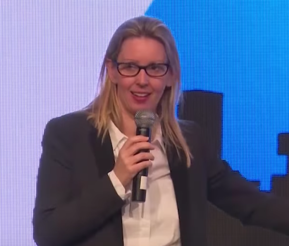 Joanna Truffaut at egov 2016 conference